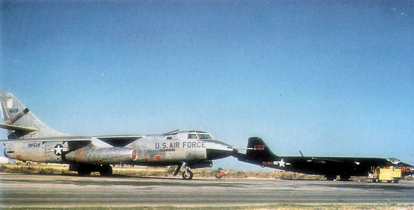 RB-66 and RB-57 of the 10th Tactical Reconnaissance Wing, Spangdahlem Air Base, Germany